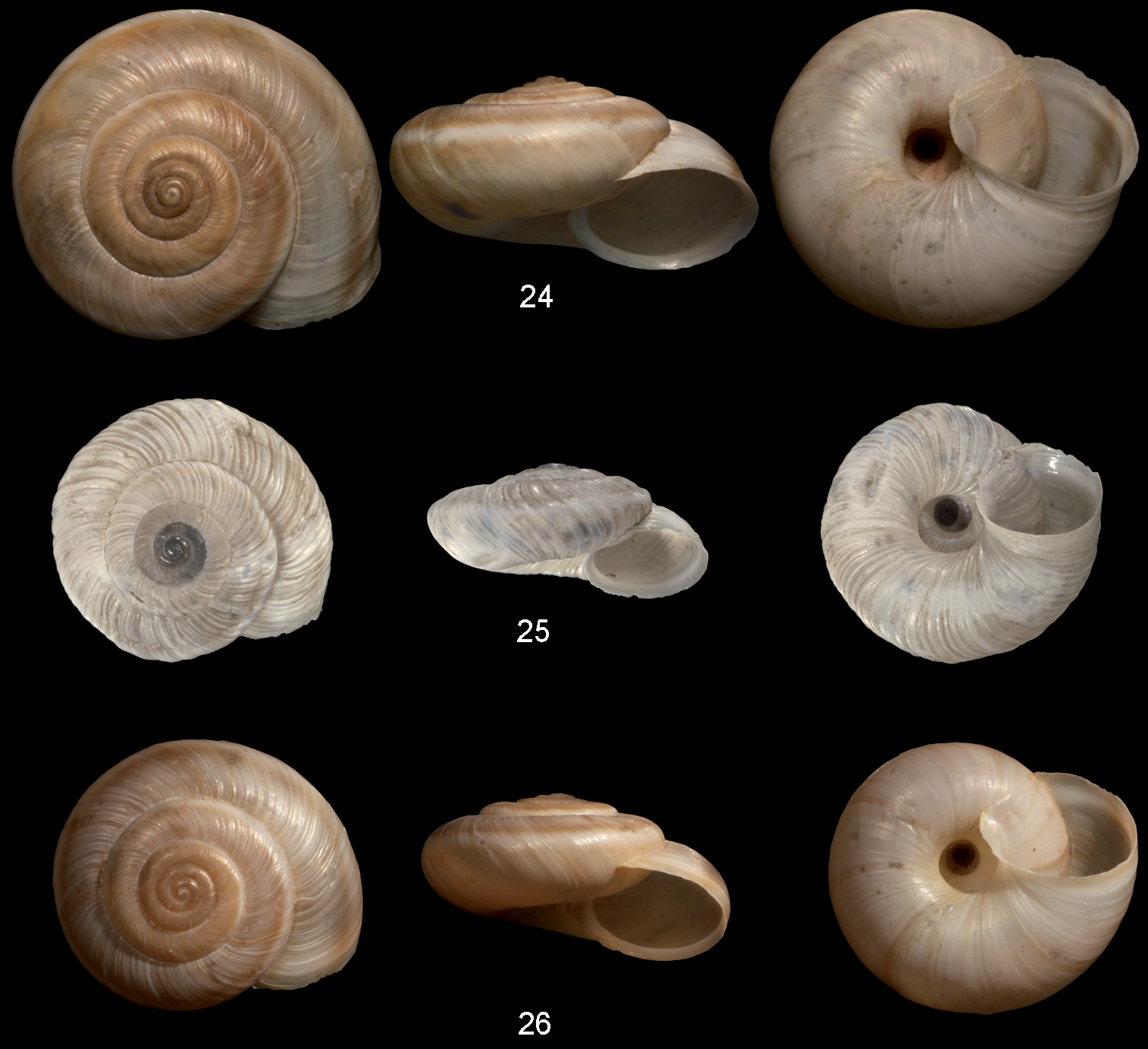 Metafruticicola spp. 24. Metafruticicola kizildagensis sp. n., holotype NMBE 32690 Vil. Isparta, Şarkikaraağaç, Kızıldağ, ca. 5 km SE of Şarkikaraağaç, 38.0403750°N, 31.3653850°E, 1500 m alt., 24.12.2005, leg. B. A. Gümüs, D = 20.44 mm 25 Metafruticicola dedegoelensis, Vil. Isparta, Dedegöl Dağı, Yenişarbademli, Alma Uşağı Mevki, 2350 m alt., 26.05.2002, leg. B. A. Gümüş, D = 15.5 mm 26 Metafruticicola oerstani, Isparta, Barla Dağı, southern slope, 2000 m alt., 38.02°N, 30.7°E, NMBE 23902. — All figures scaled × 2.